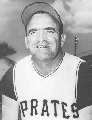 Professional baseball player and manager Danny Murtaugh